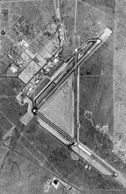 USGS digital orthophoto of Ephrata Municipal Airport in the U.S. state of Washington